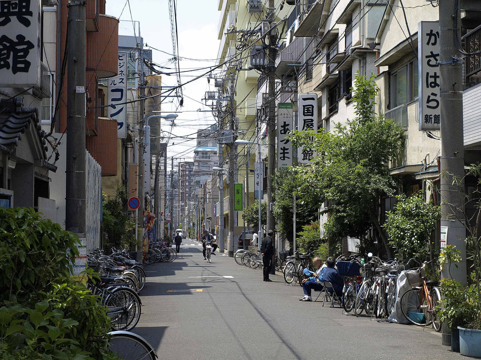 Budget hotels for unemployed people in San'ya district, Taito-ku, Tokyo, Japan.